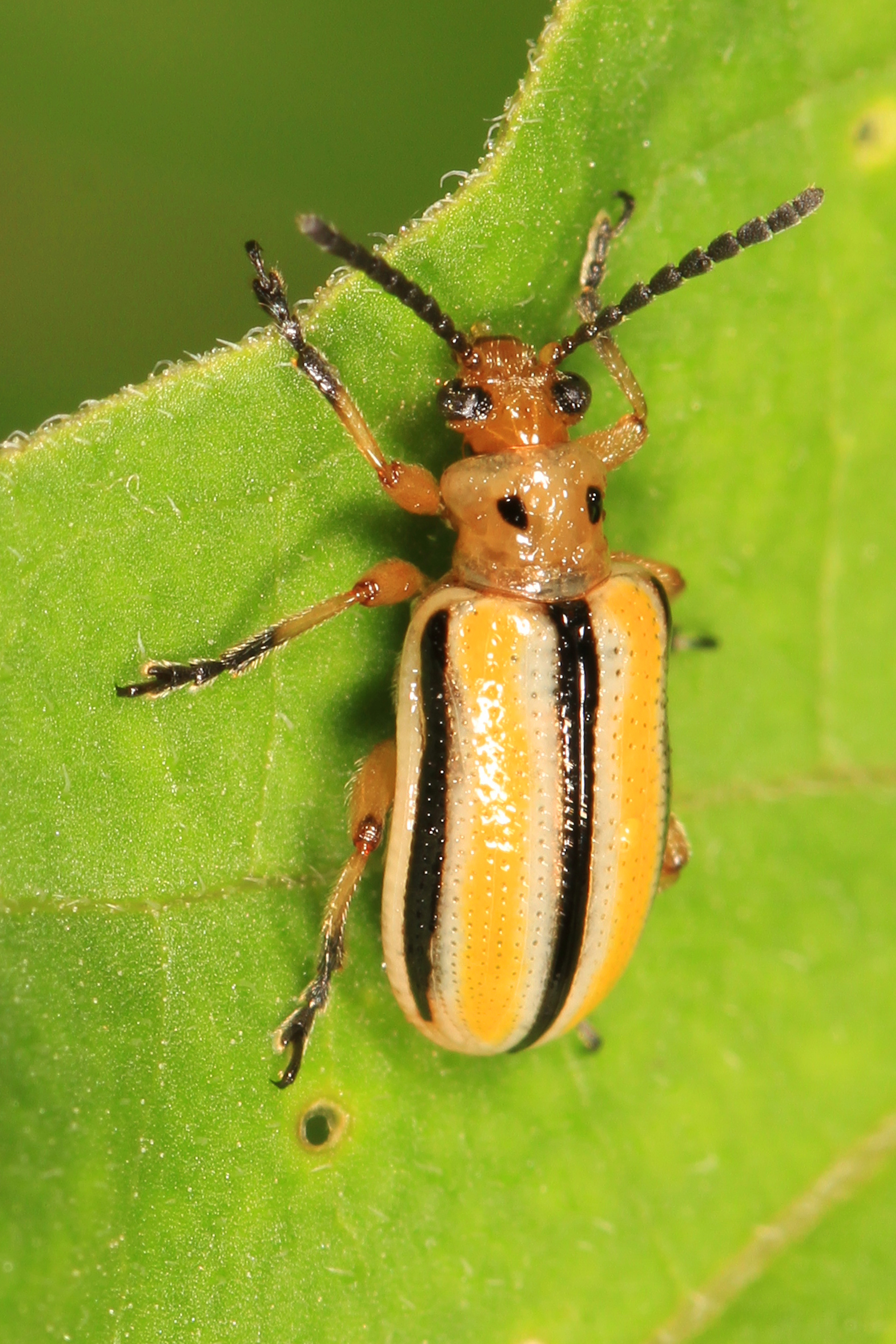 Three-lined Lema Beetle - Lema trivittata, Elk River State Forest, Elkton, Maryland. 9/5/2014 - Cecil County, Maryland ID by Bugguide